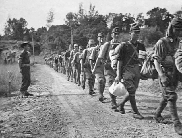 JAPANESE TROOPS OF COLONEL IEMURA'S FORCE WERE DISARMED, SEARCHED MEDICALLY EXAMINED AND MARCHED INTO THE PRISONER OF WAR COMPOUND UNDER GUARDS OF THE 2/32ND BATTALION. THESE PRISONERS, ALL FIT, WERE USED TO BUILD FURTHER COMPOUNDS FOR OTHER JAPANESE PERSONNEL IN THE JESSELTON AREA. A LINE OF PRISONERS MARCHES INTO THE COMPOUND CARRYING THEIR PERSONNEL BELONGINGS.